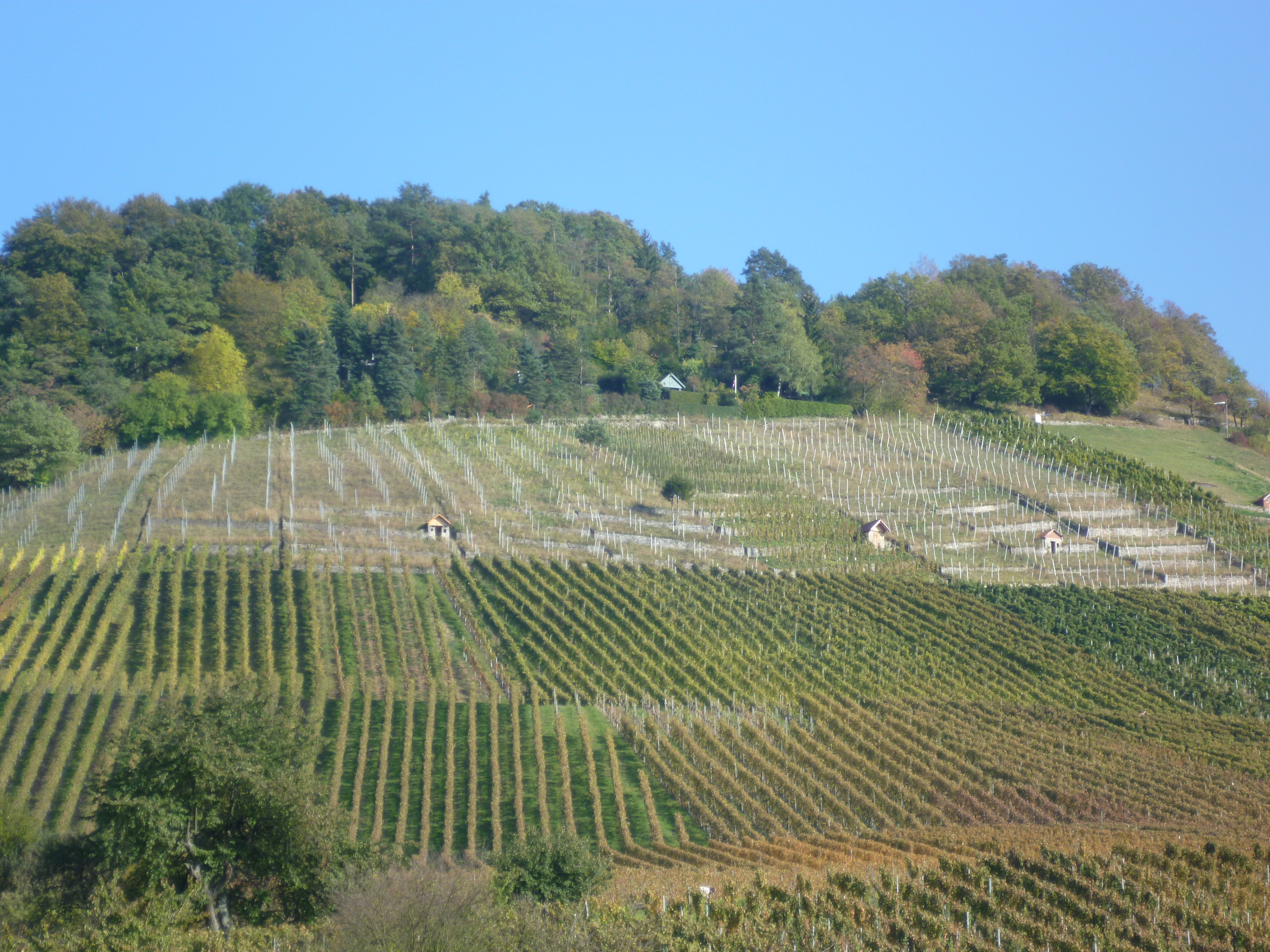 Weinberge bei Bouch vom Remstal-Höhenweg